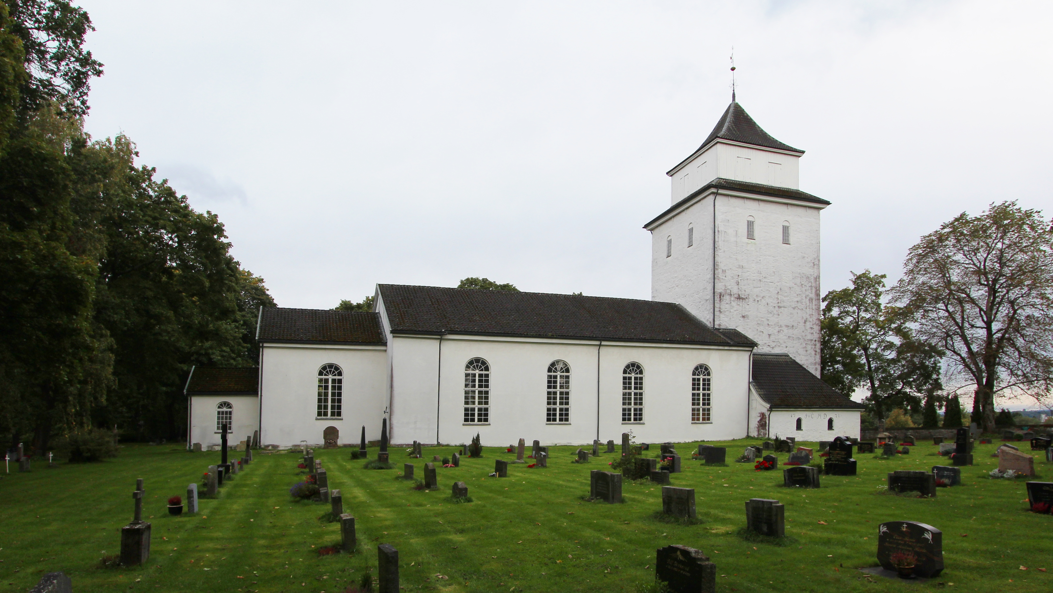 Haug church in Øvre Eiker.